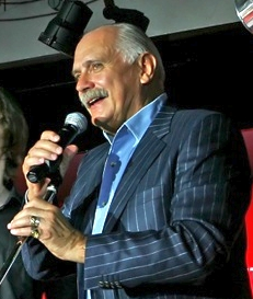 Nikita Mikhalkov. Moscow International Film Festival-2009